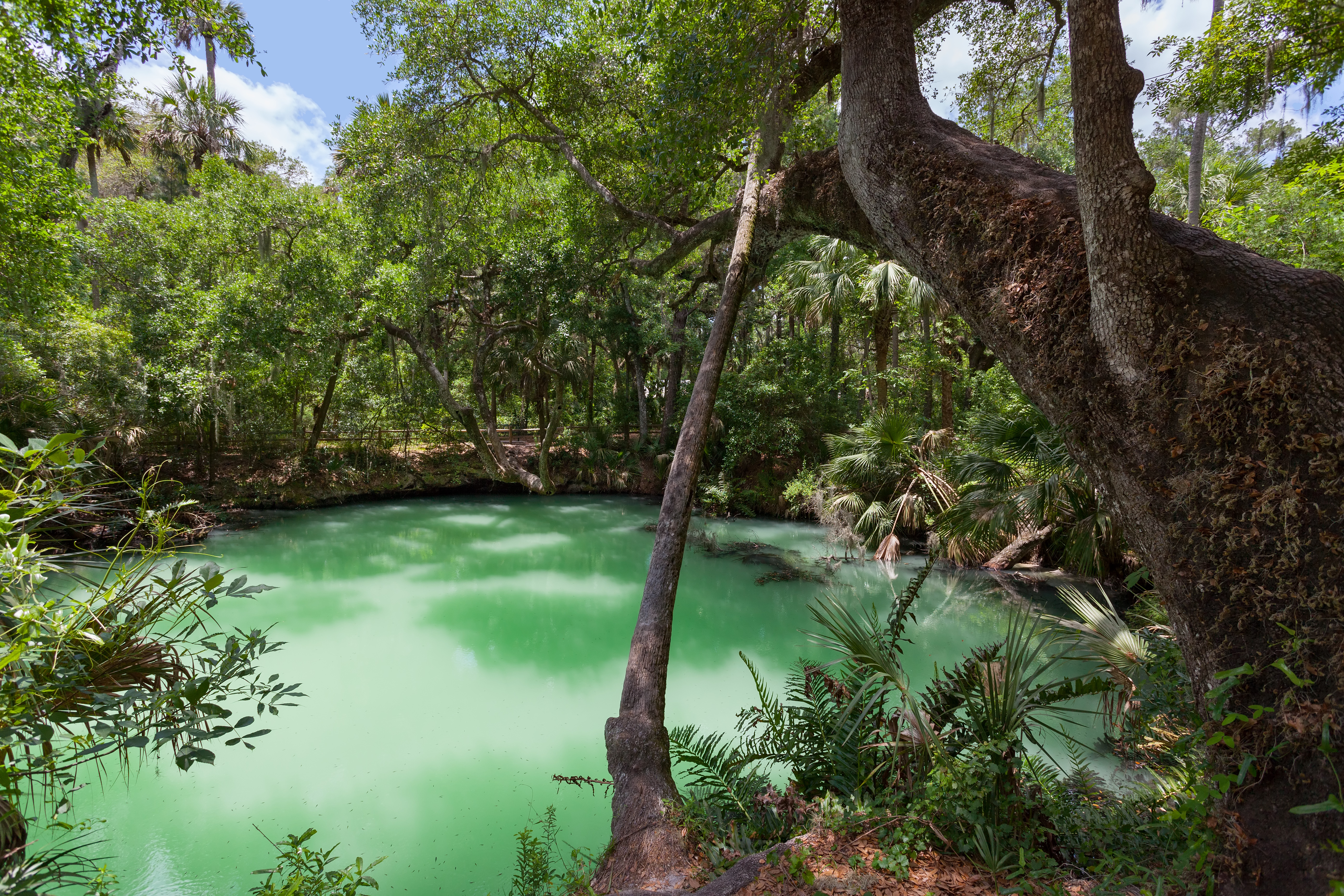 Green Springs, Enterprise, Florida. View from the east bank looking toward the west.